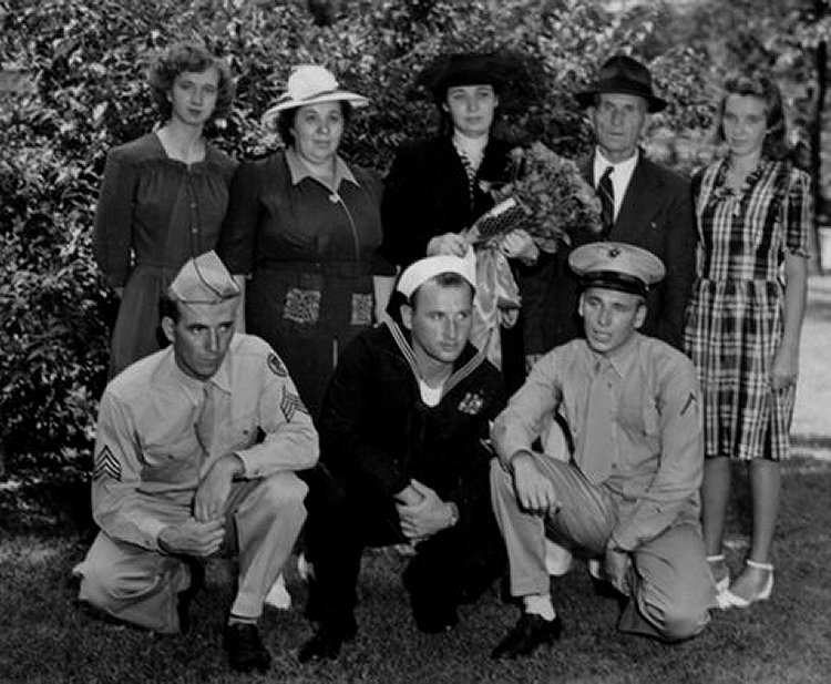 The Diachenko family at the launching and Christening of USS Diachenko (APD-123) at Bethlehem Steel Co. Quincy, MA., 15 August 1944.